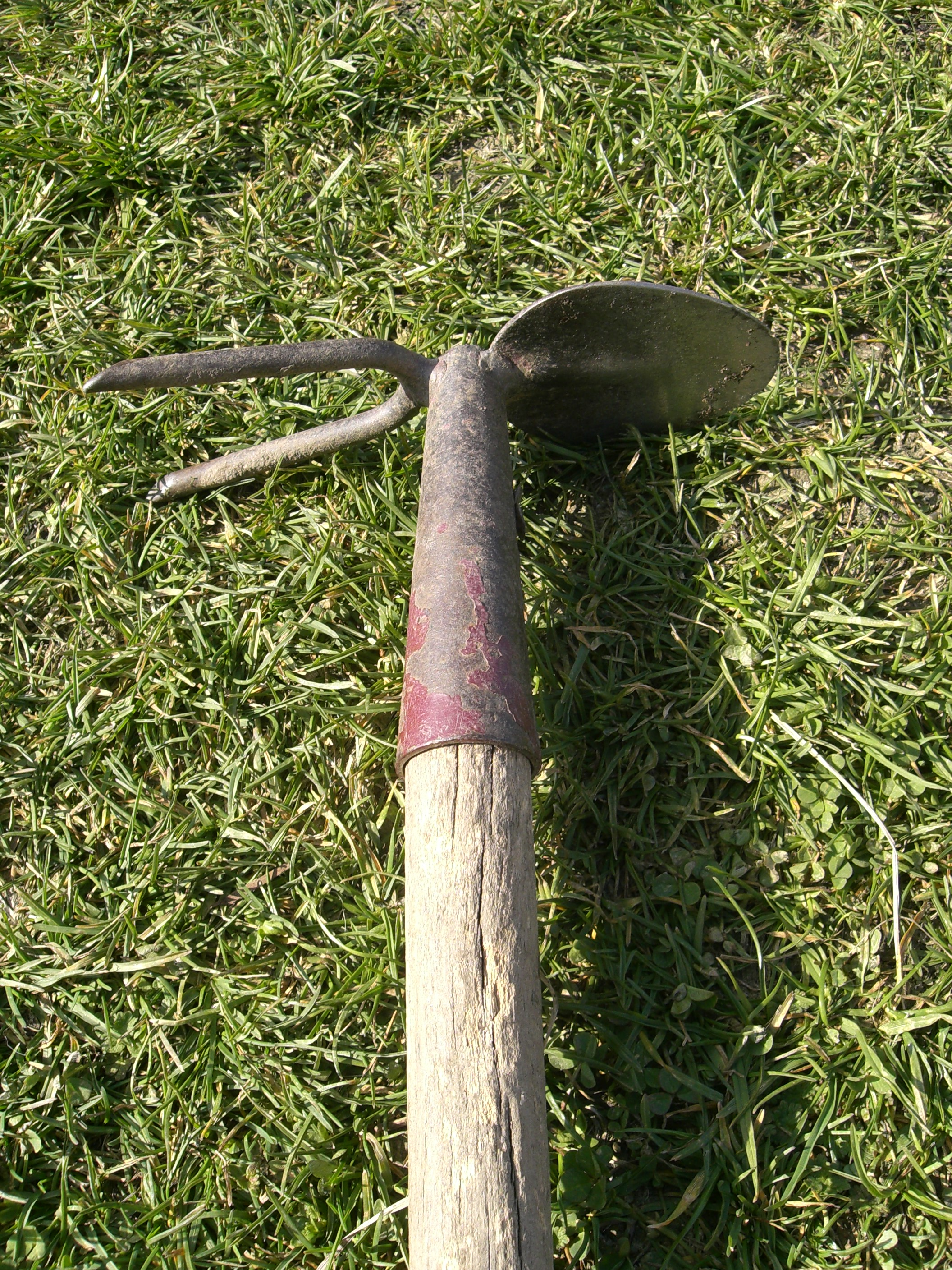 Hoe